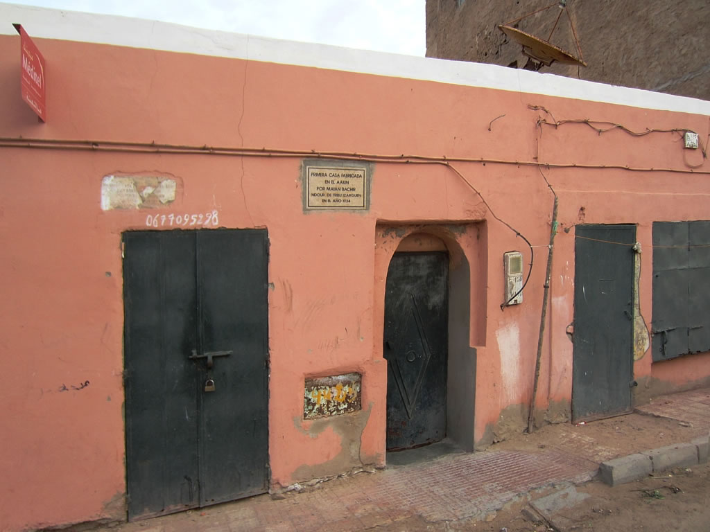 The oldest house in El Aaiún—Laayoune, Western Sahara, dating from 1934.